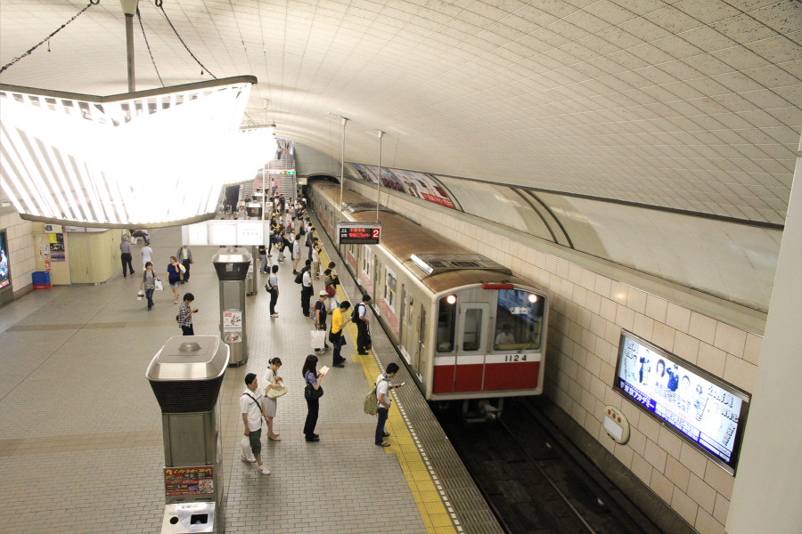 Osaka subway Midosuji line Umeda station